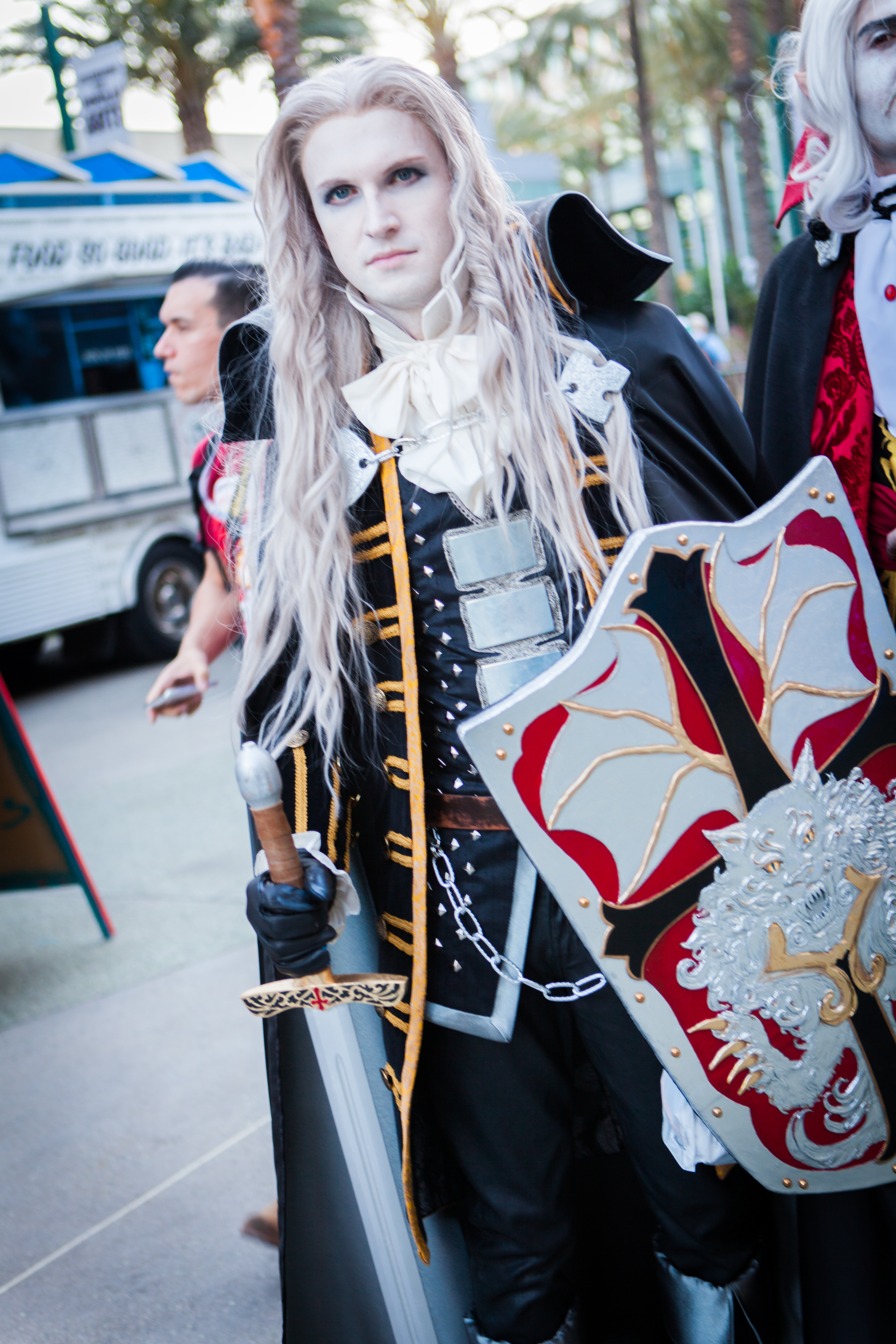 Wondercon 2015-7991